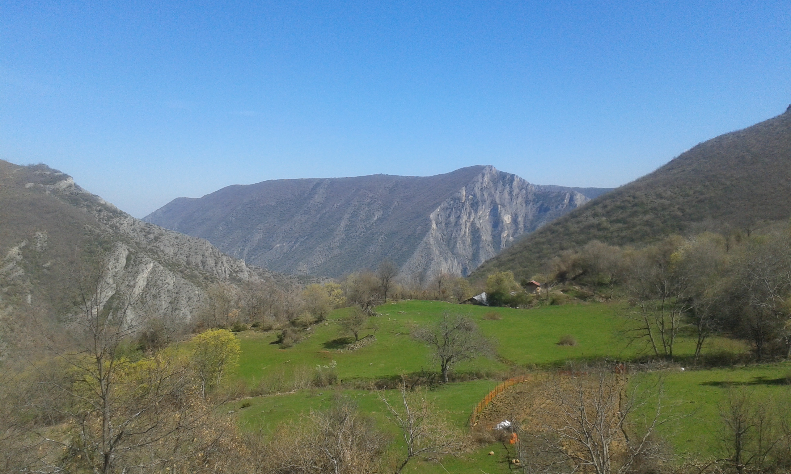 Near the village Lukovica